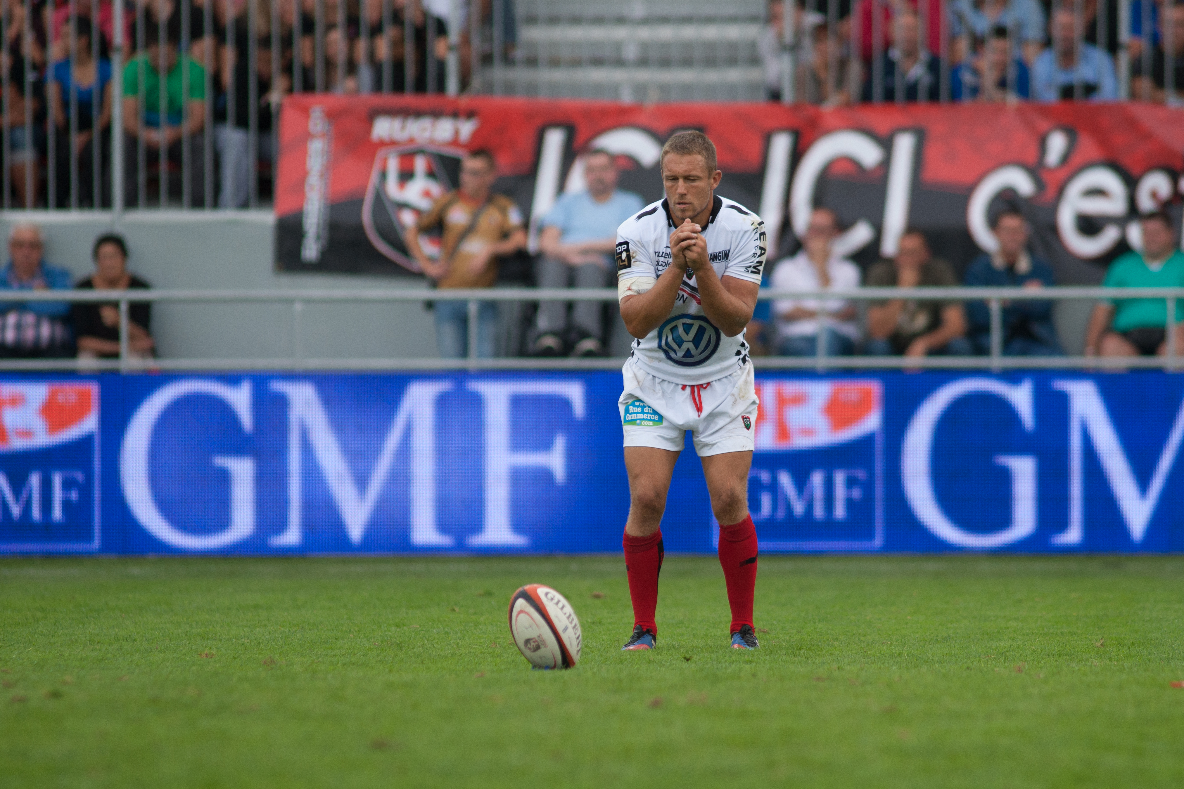 The making of this document was supported by Wikimedia CH. (Submit your project!) For all the files concerned, please see the category Supported by Wikimedia CH. US Oyonnax - Rugby club toulonnais, 28th September 2013